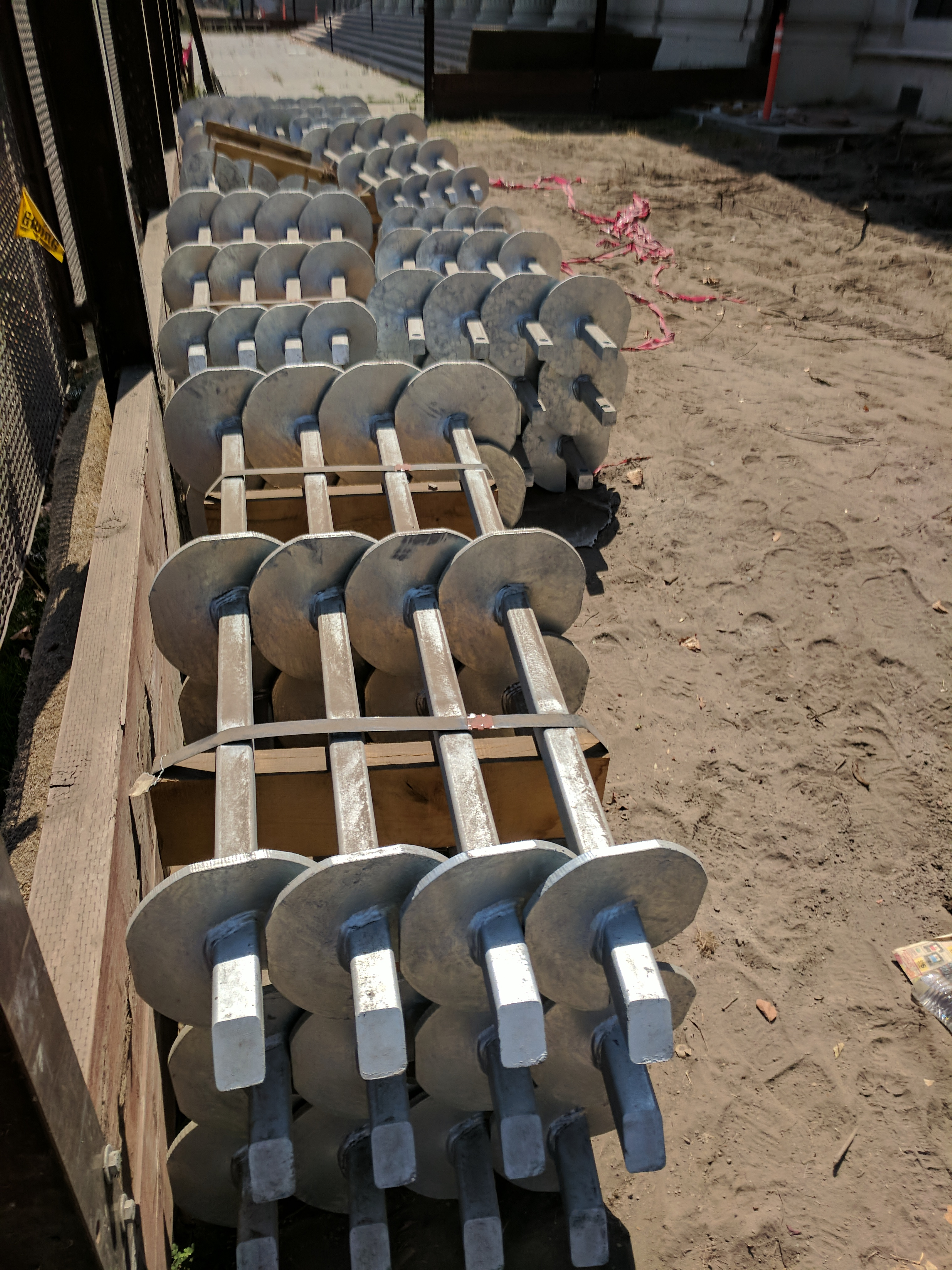 Photo of screw piles (helical anchors) staged for installation at Alameda High School.